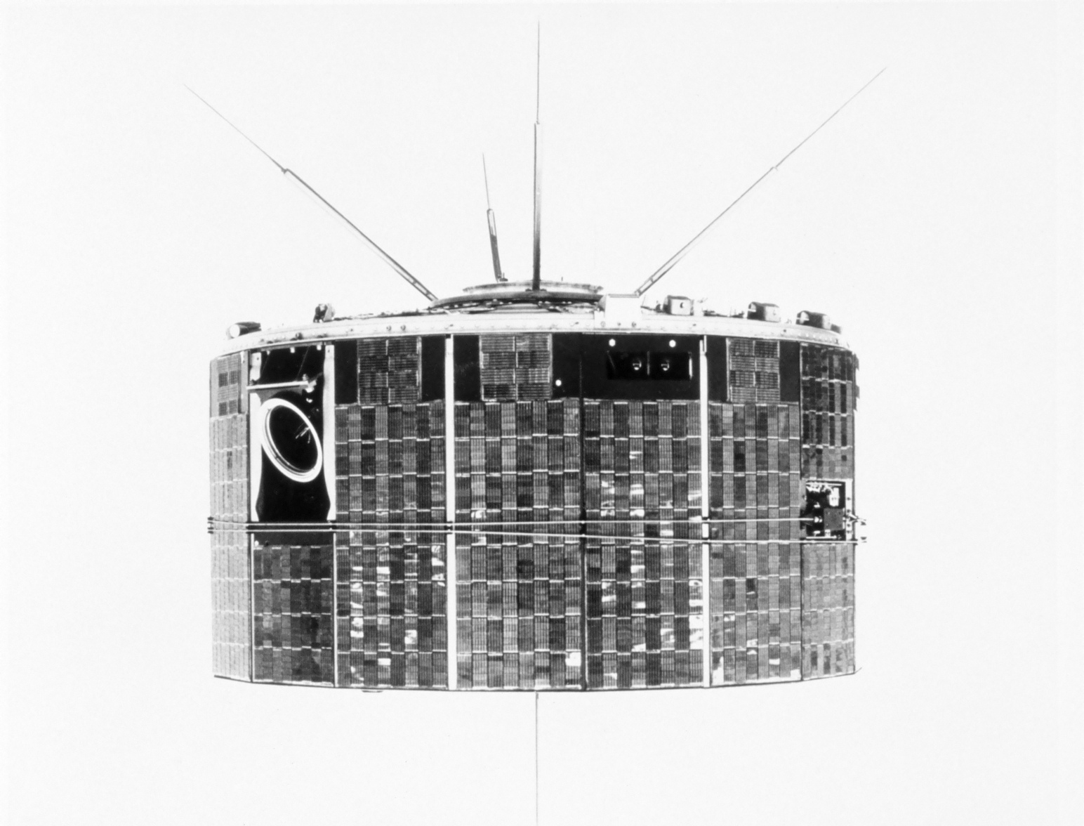 TIROS IX, a cartwheel satellite launched by a Thor-Delta rocket on January 21, 1965.